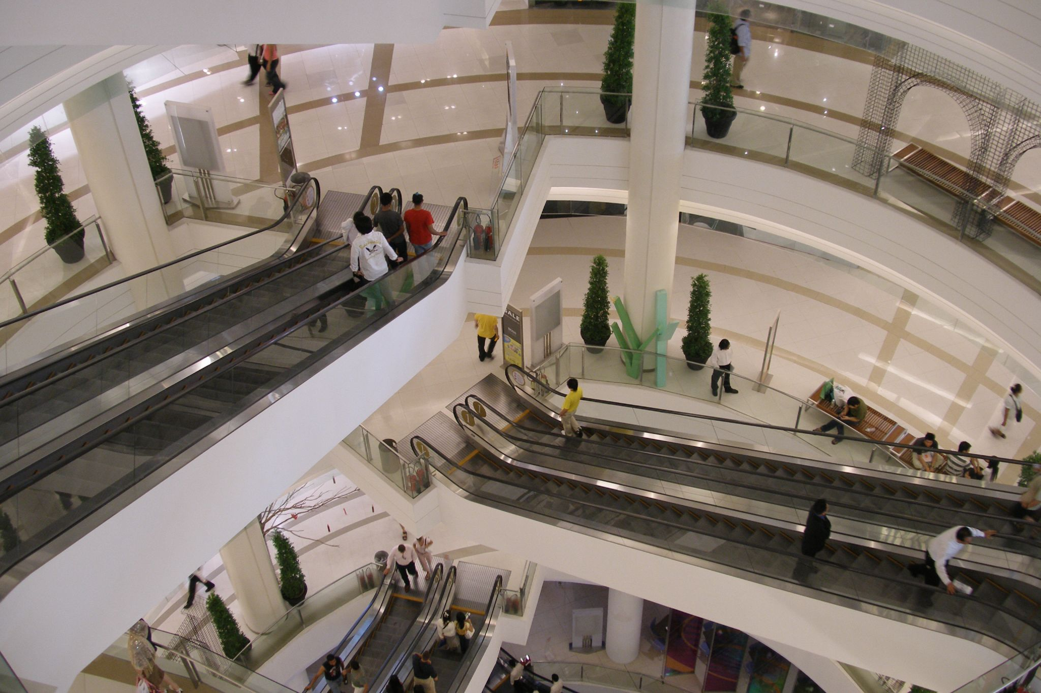 Siam Paragon is an upscale shopping mall in Bangkok, Thailand. It is one of the biggest shopping centers in Asia. Opened on December 9, 2005, it includes a wide range of stores and restaurants as well as a multiplex movie theater (consisted of 15 large size theaters with one of the them having the biggest screen and seating capacity in Asia) and the Siam Ocean World aquarium (the largest aquarium in South East Asia) and an exhibition hall and also an opera concert hall. It also has a large bowling alley.